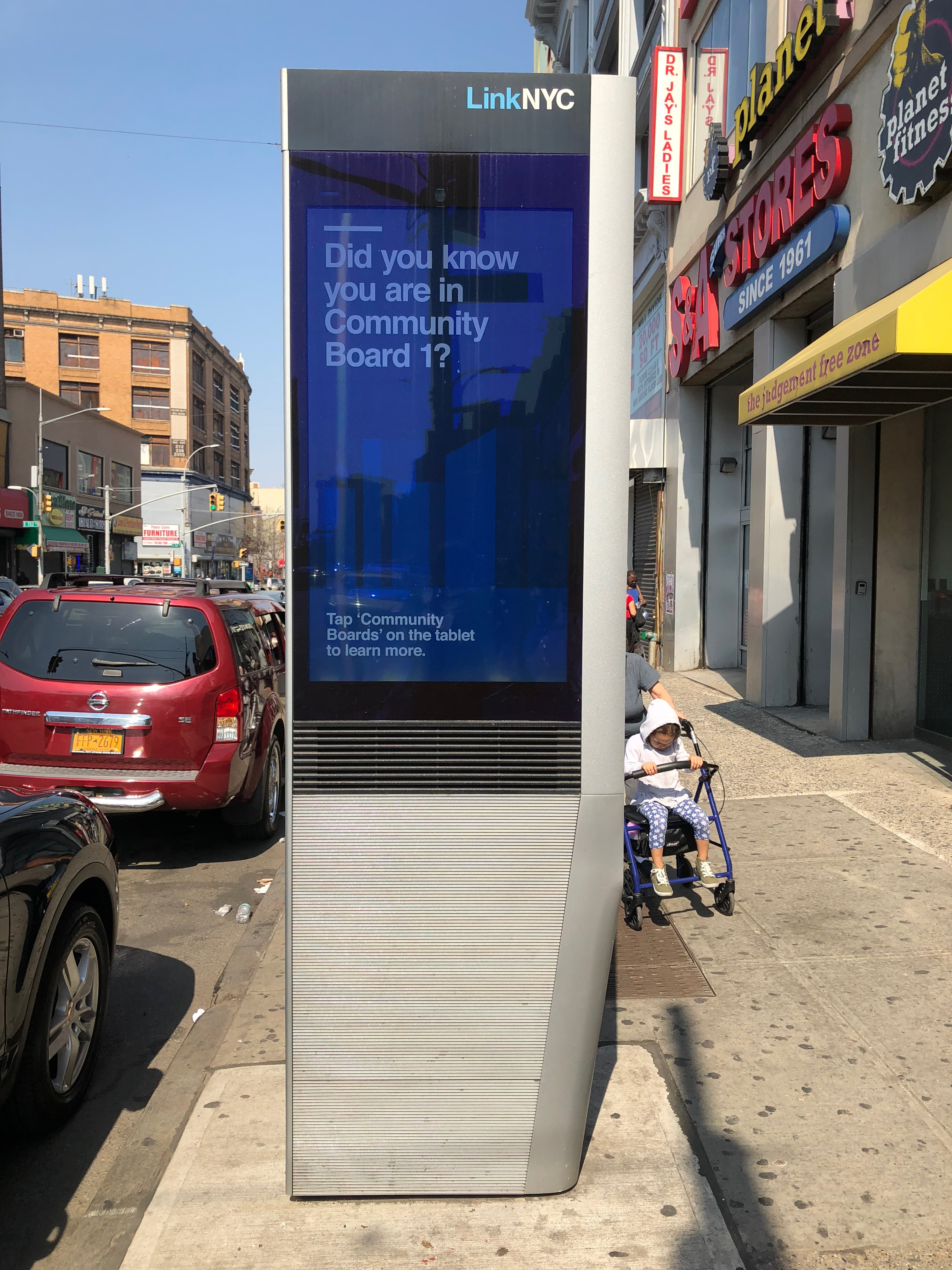 LinkNYC kiosk 3rd Ave Bronx with an ad for Community Board 1